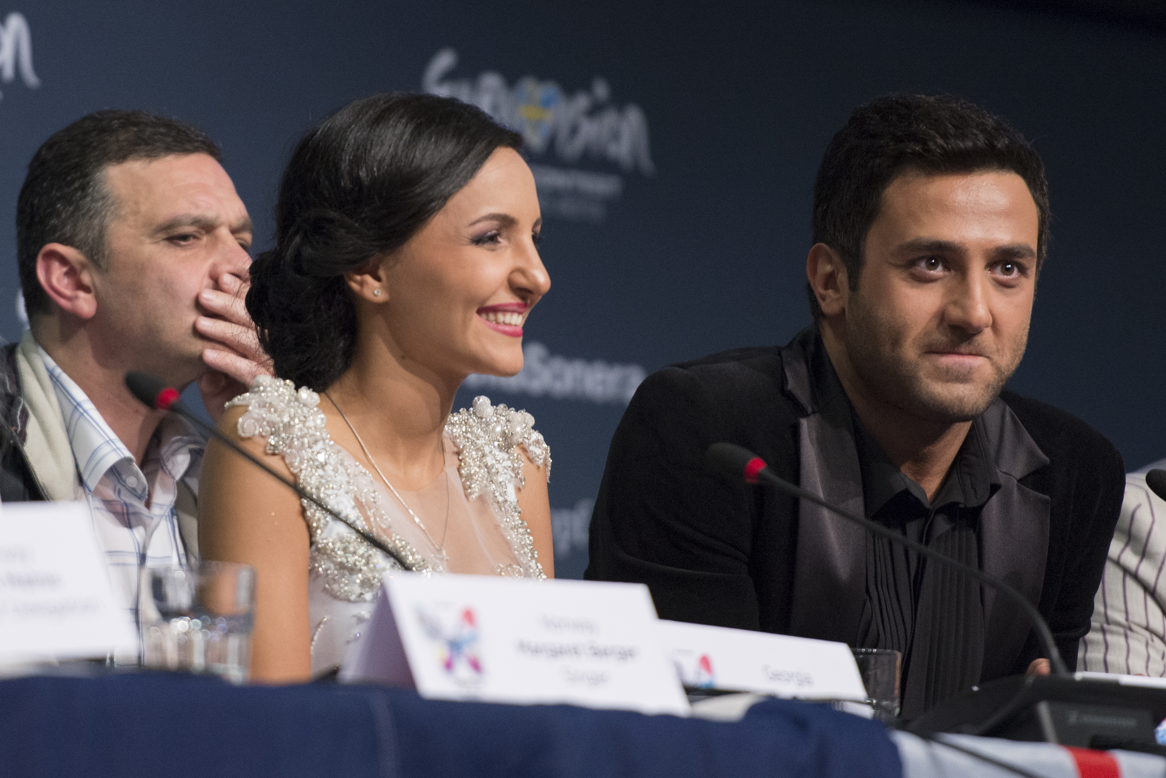 Nodiko Tatishvili and Sopho Gelovani at a press conference during the Eurovision Song Contest 2013 Malmö. (Help translate this text)